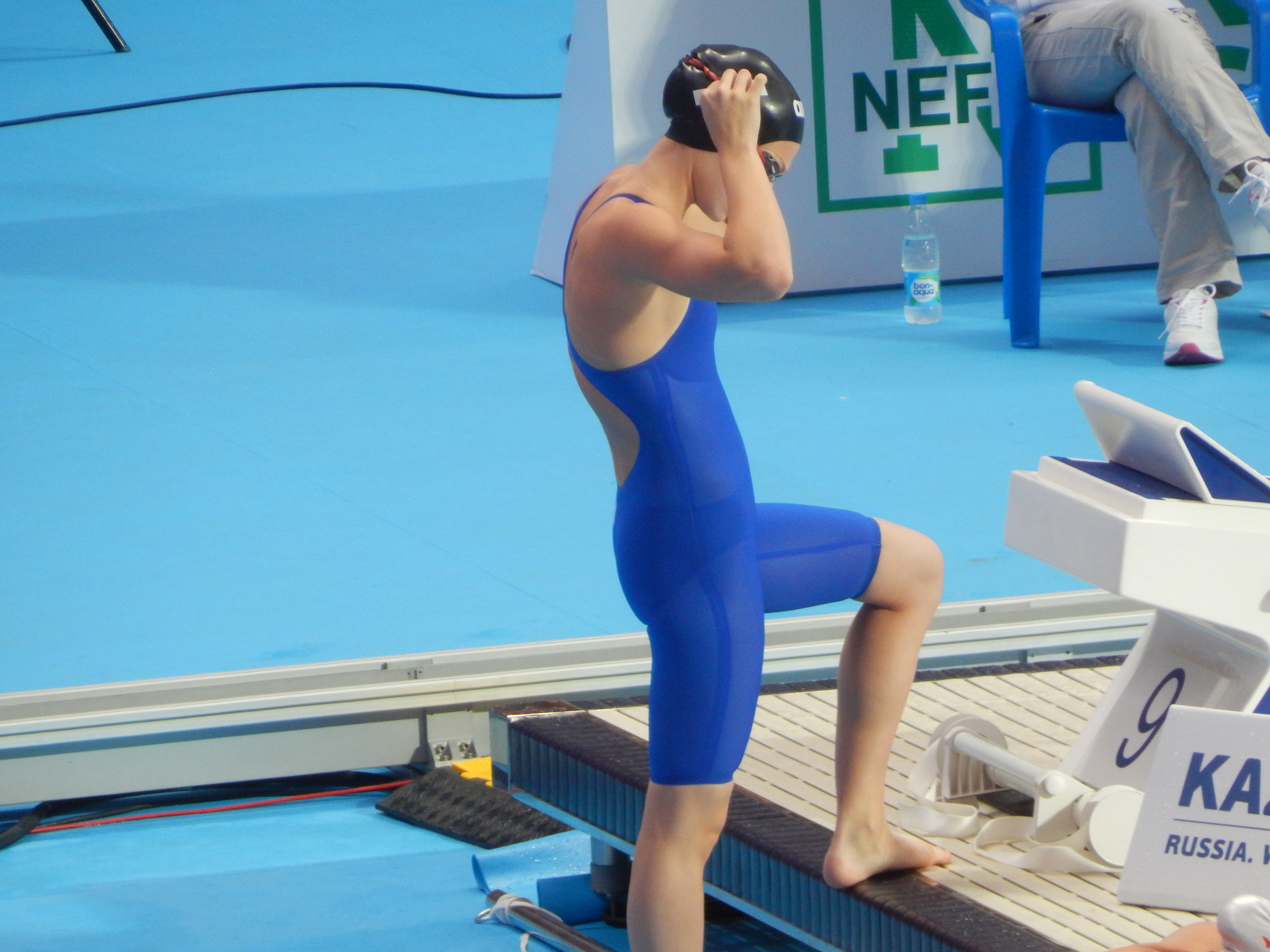 Maria Astashkina at 2015 World Aquatics Championships